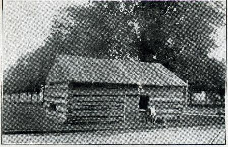 This is a replica of the first Geauga County Courthouse to be built on the town square in Chardon, Ohio. It was built in 1905 for the County Centennial Celebration Captioned As {